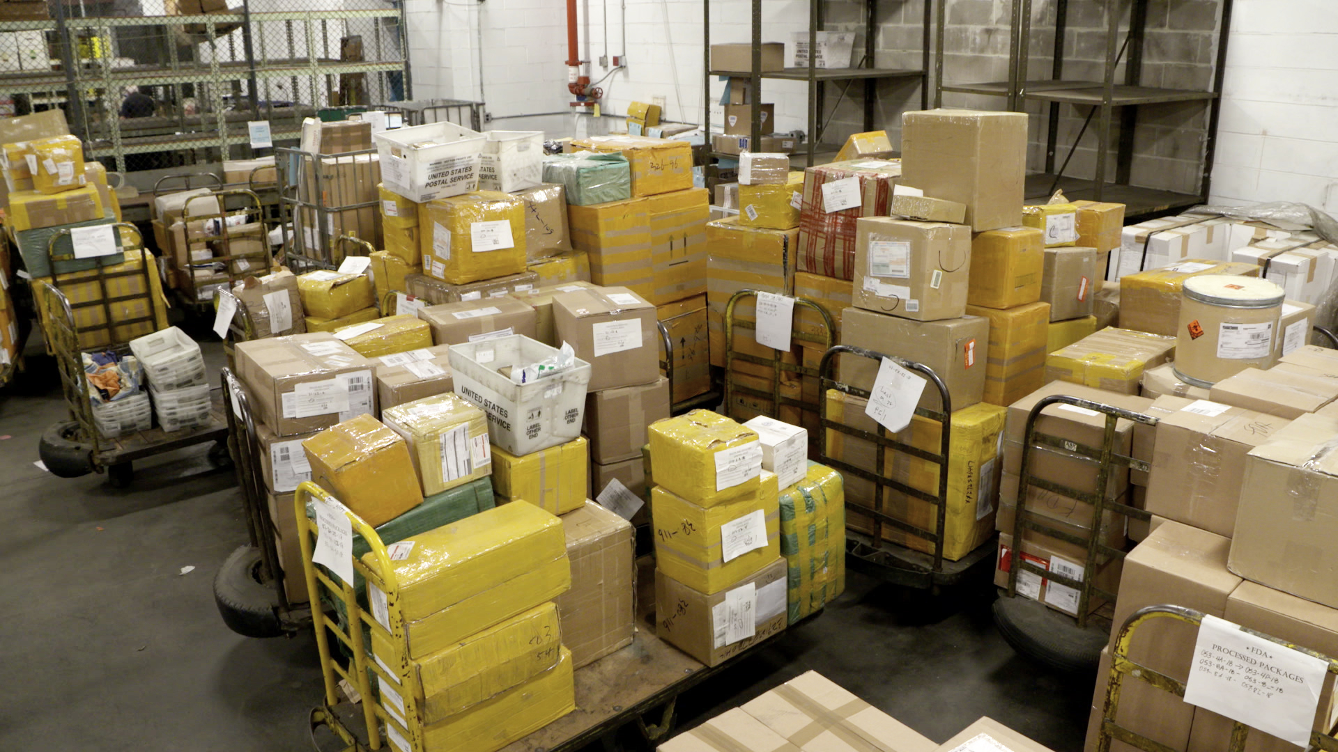 Packages for FDA review at JFK IMF. The IMFs receive international mail from more than 180 countries, which often lack advanced manifest data that would aid in targeting shipments that are likely to contain illegal, illicit, unapproved, counterfeit and potentially dangerous drugs. How large is the scope of the problem? There’s no way for the FDA or any federal agency to know. But 86% of the packages that the FDA has reviewed contain illegal, illicit, unapproved, counterfeit and potentially dangerous drugs.